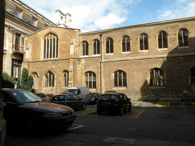 The east range of King's Old Court, Old Schools This is the oldest part of Old Schools and was built between 1430 and 1457.